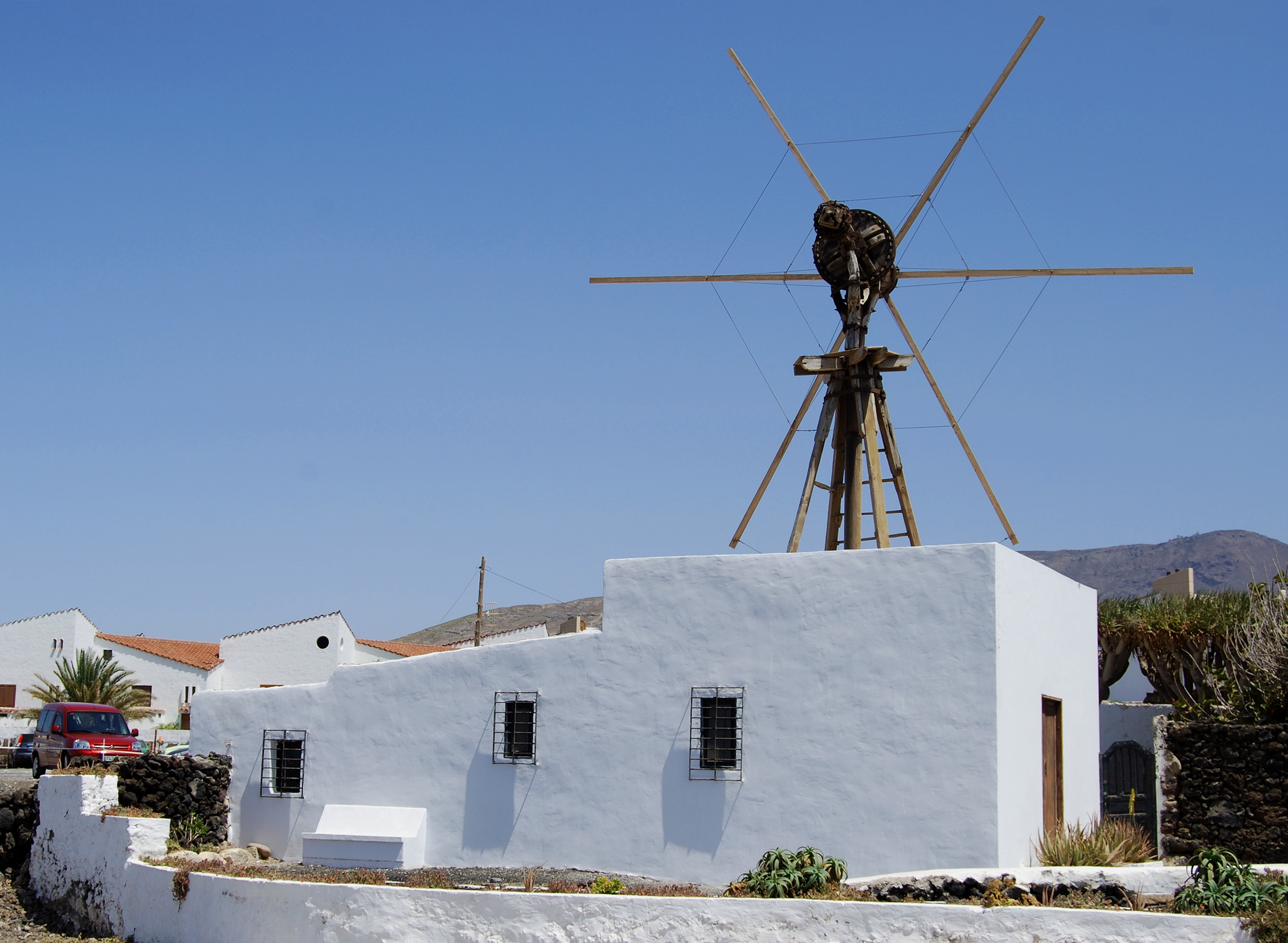 Windmill at Puerto de las Nieves, Gran Canaria.